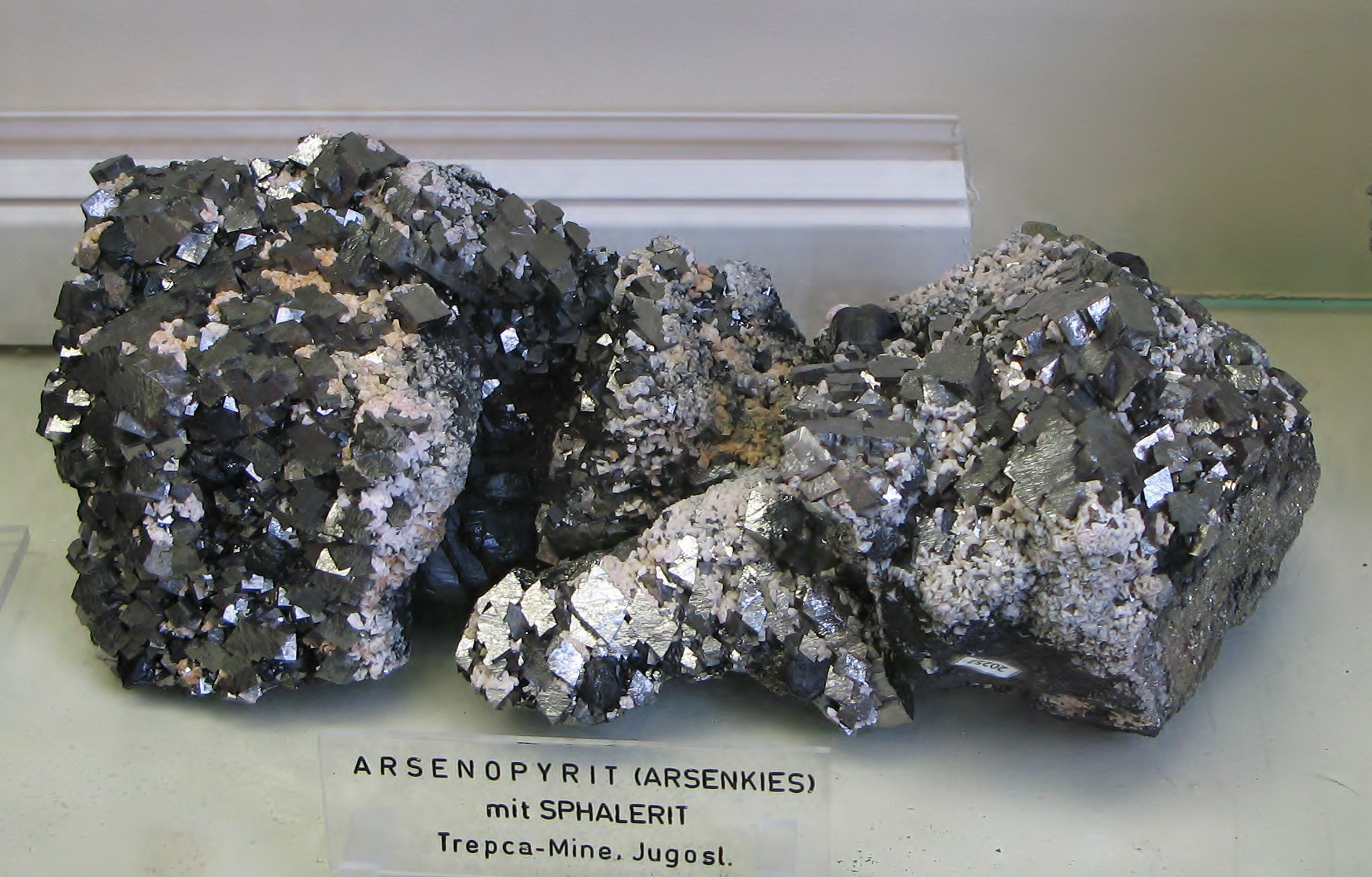 Arsenopyrit mit Sphalerit - Fundort: Trepca-Mine, Jugoslawien - Ausgestellt im Mineralogischen Museum Bonn